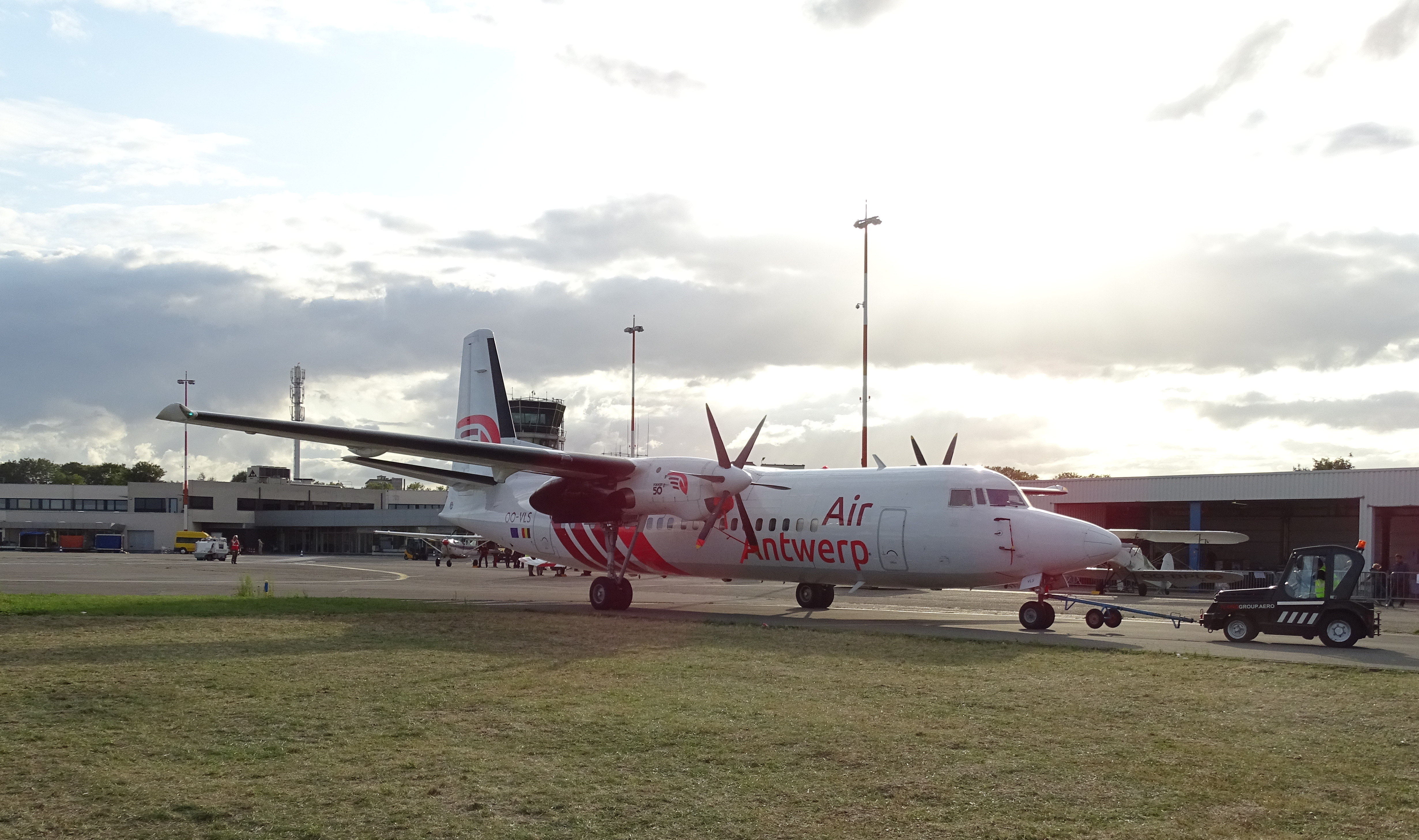 Air Antwerp Fokker 50 OO-VLS (c/n 20109) at Antwerp International Airport during the Antwerp Liberation Festivities 2019.